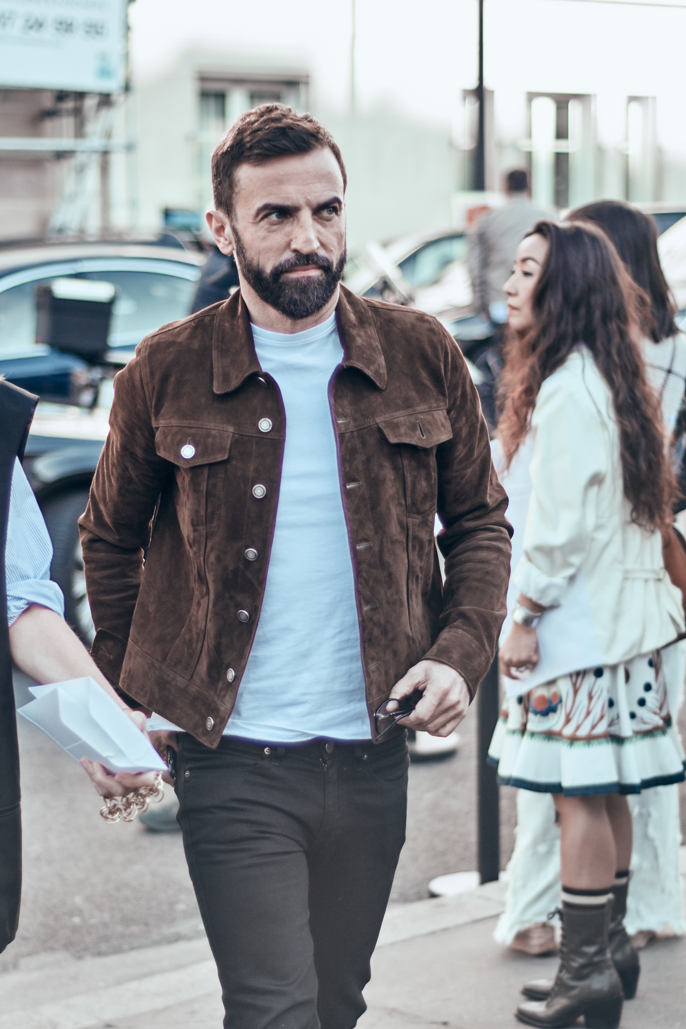 Nicholas Ghesquiere at Paris Fashion Week RTW Spring/Summer 2019